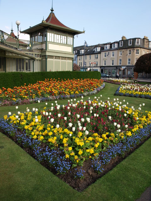 Rothesay gardens Spring bloom.